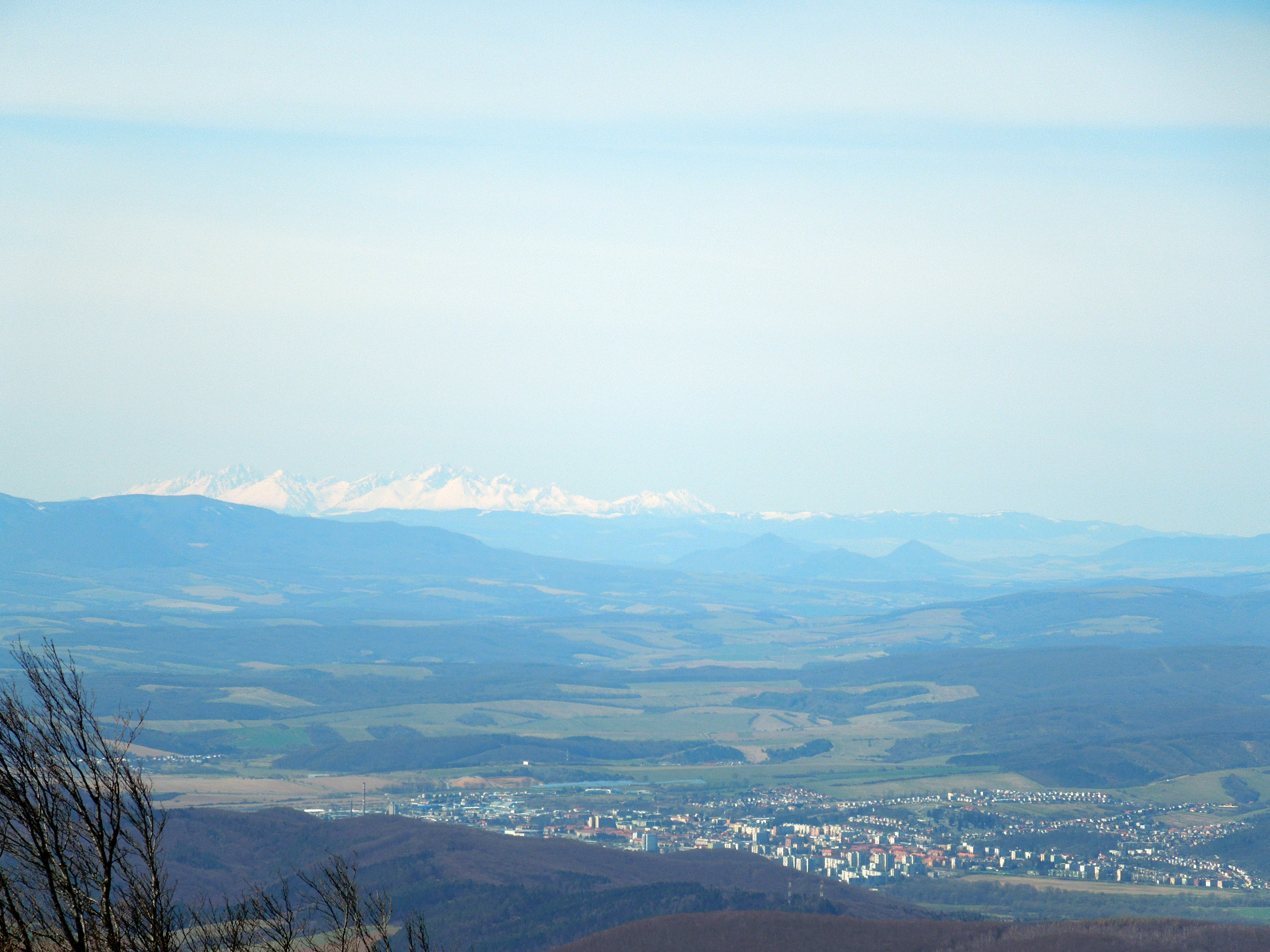 View of Vysoké Tatry and town Humenné from the top of Vihorlat peak